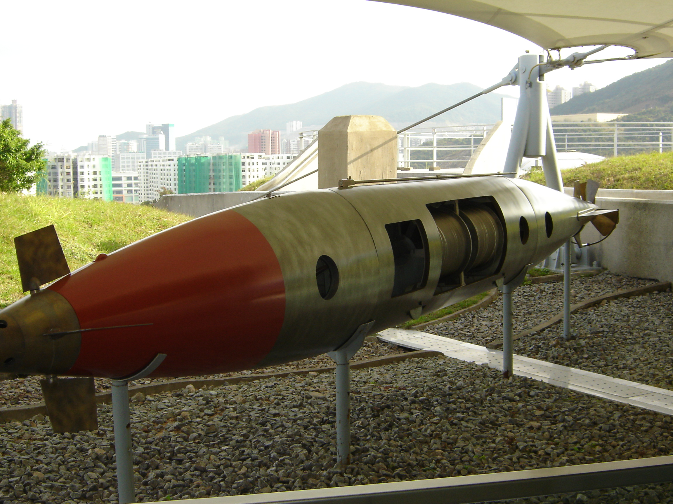 3/4 forward view of replica Brennan Torpedo